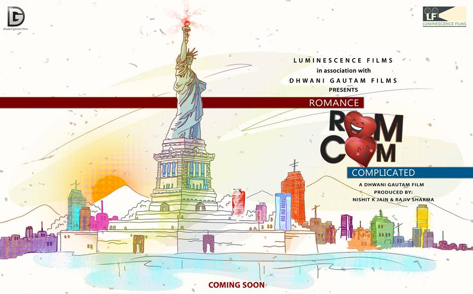 Upcoming Gujarati film releases its first poster on 15th August 2014.